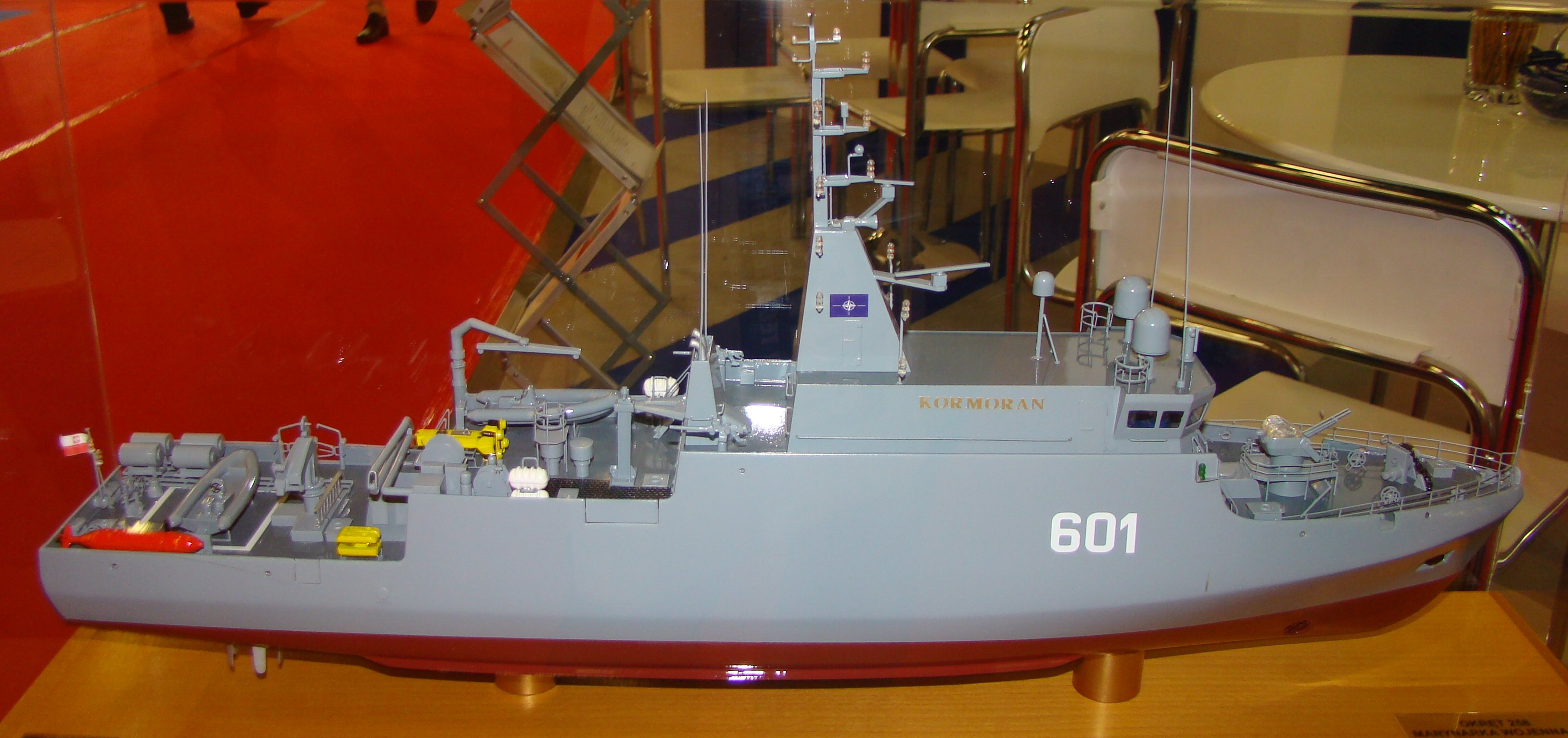 Shipyard model of minesweeper ORP Kormoran for the Polish Navy.